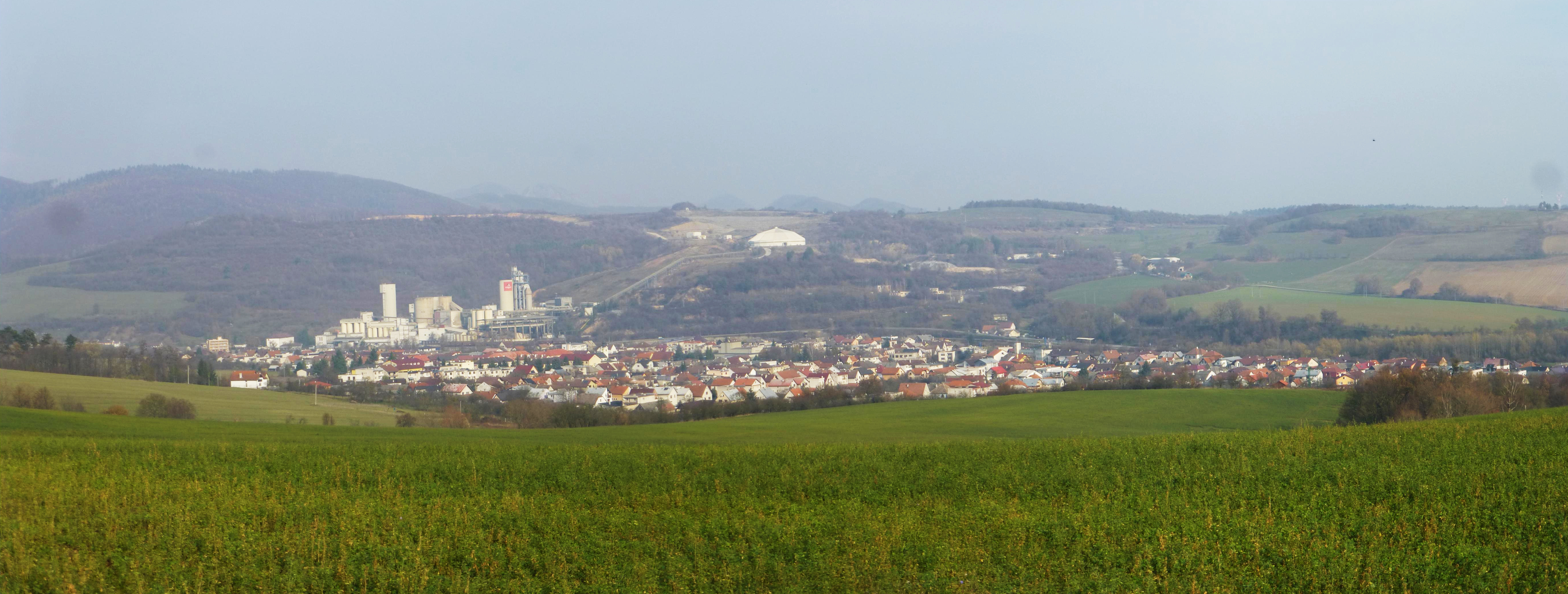 View on the Horné Srnie village and Vlára valley from the southwest. Trenčín district, Slovakia. Autmn 2018.